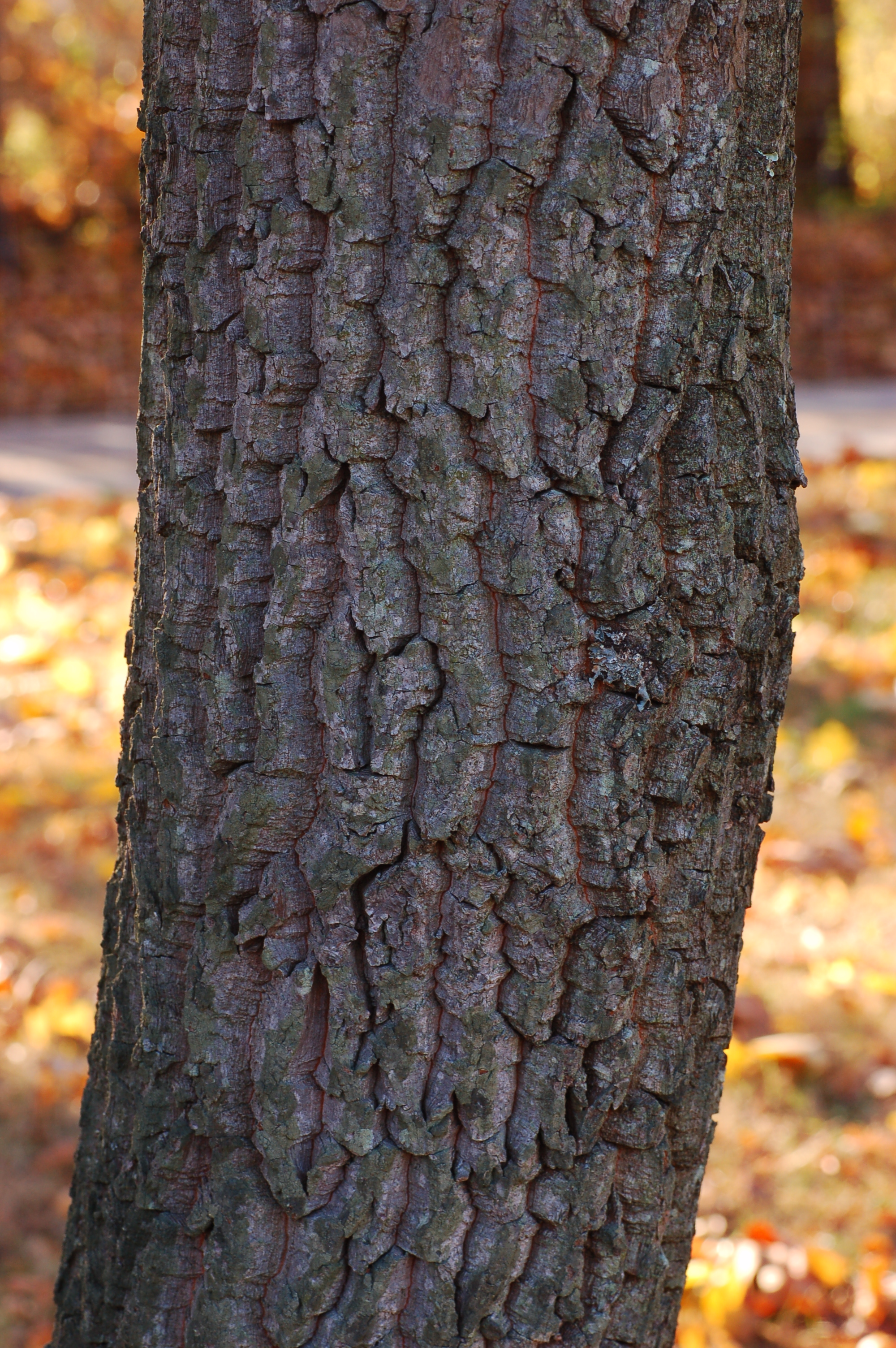 Photograph of the Sourwooden (Oxydendrum arboreum en ). Photo taken at the Tyler Arboretum where it was identified.